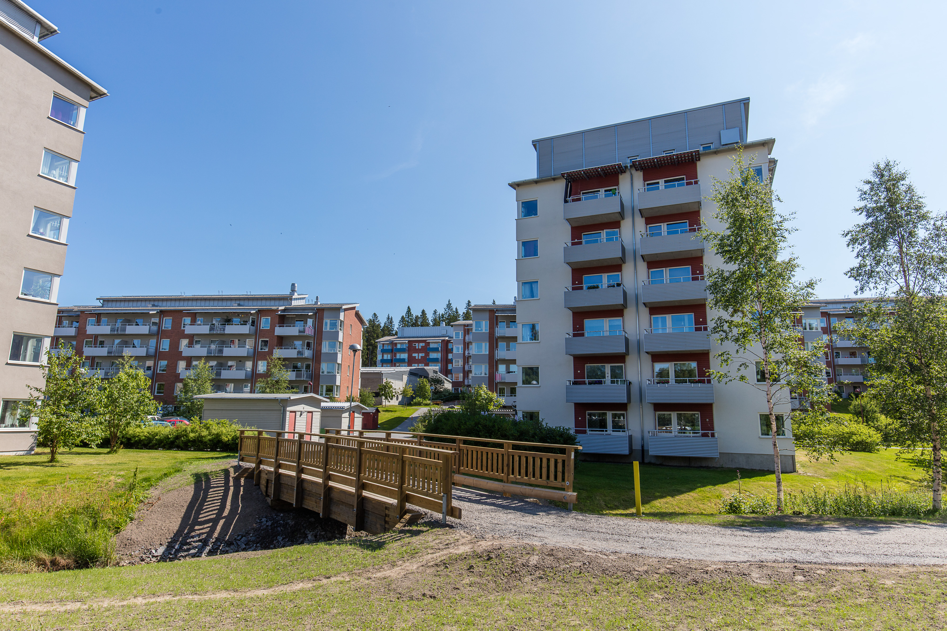 Lilljansberget is a hill and since 2005 also a residential area in Umeå, Sweden.